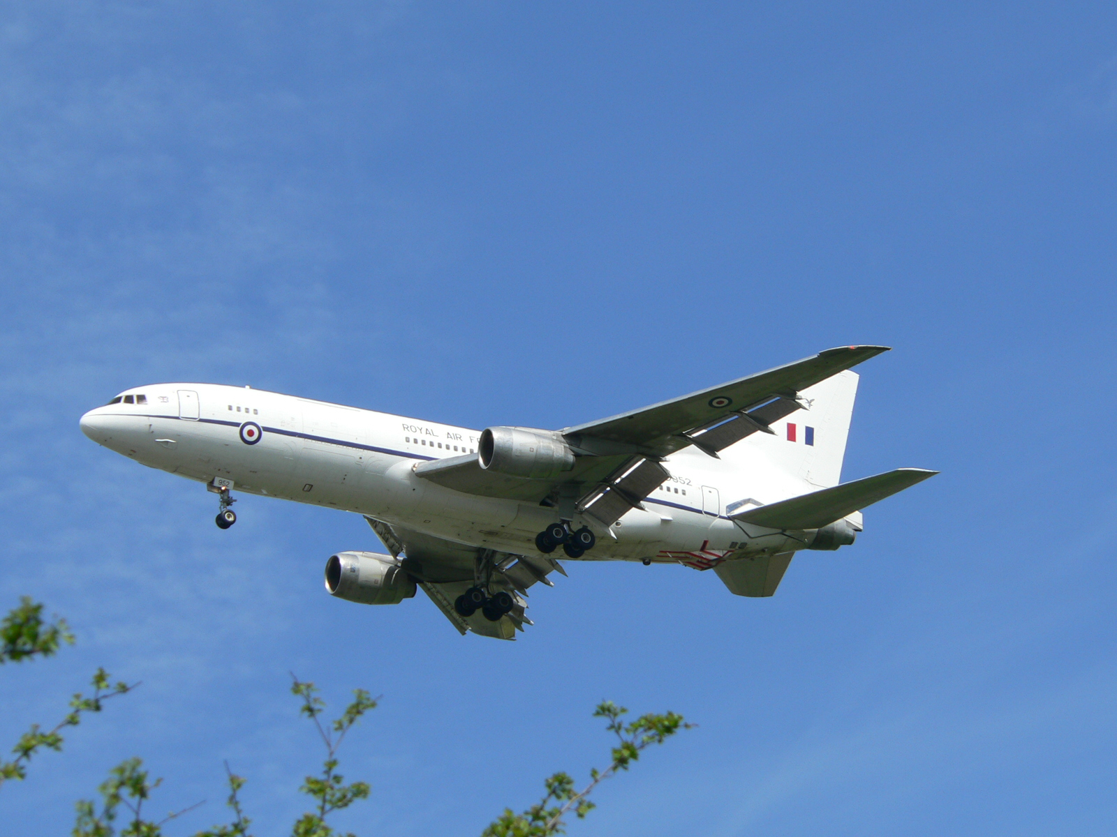 A Royal Air Force TriStar L-1011 (ZD952) jet shortly before landing at Filton Aerodrome in north Bristol. Photographed from the bridge over the railway at Hambrook Lane in Stoke Gifford.